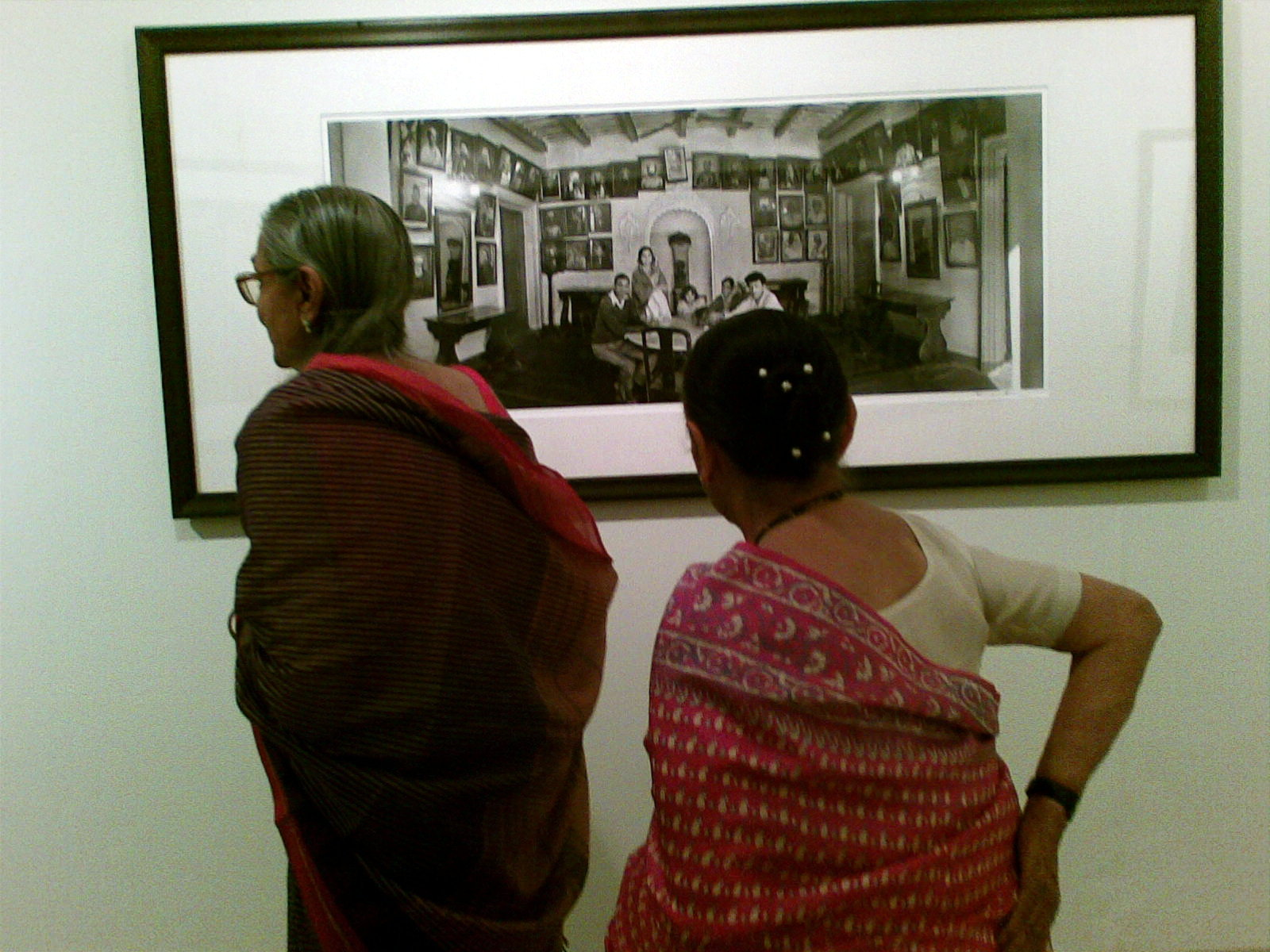 At the opening of Raghu Rai retrospective, in Gallery of Modern Art, New Delhi. I probably was not supposed to shoot anything, but meh. This is an occasion for photographer rebellion!